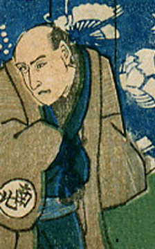 Nanboku Tsuruya IV, depicted in Ichimura-za San-gai no Zu by Kunisada Utagawa I.